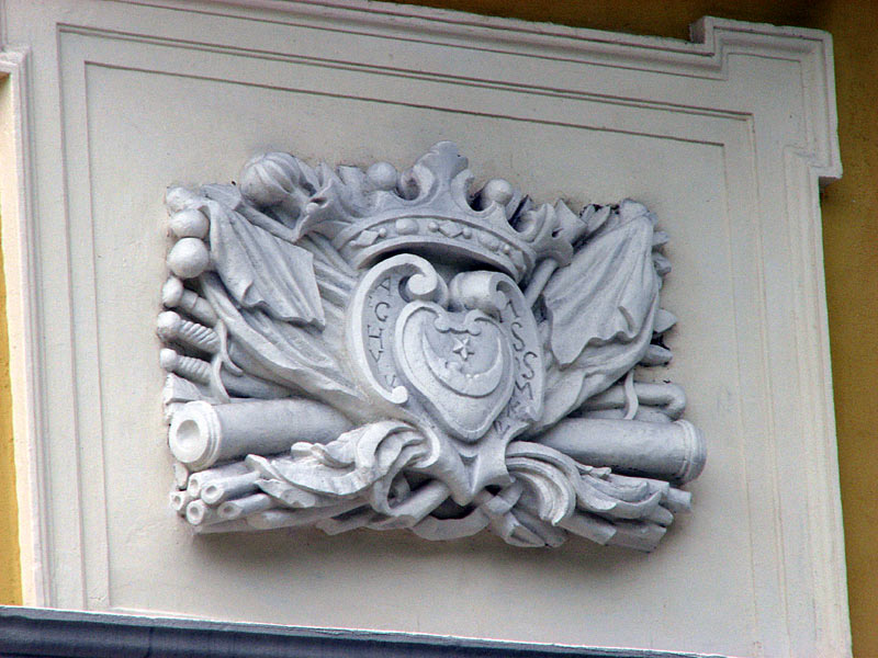 Arsenal of Seniavski-Family in Lviv, Ukraine